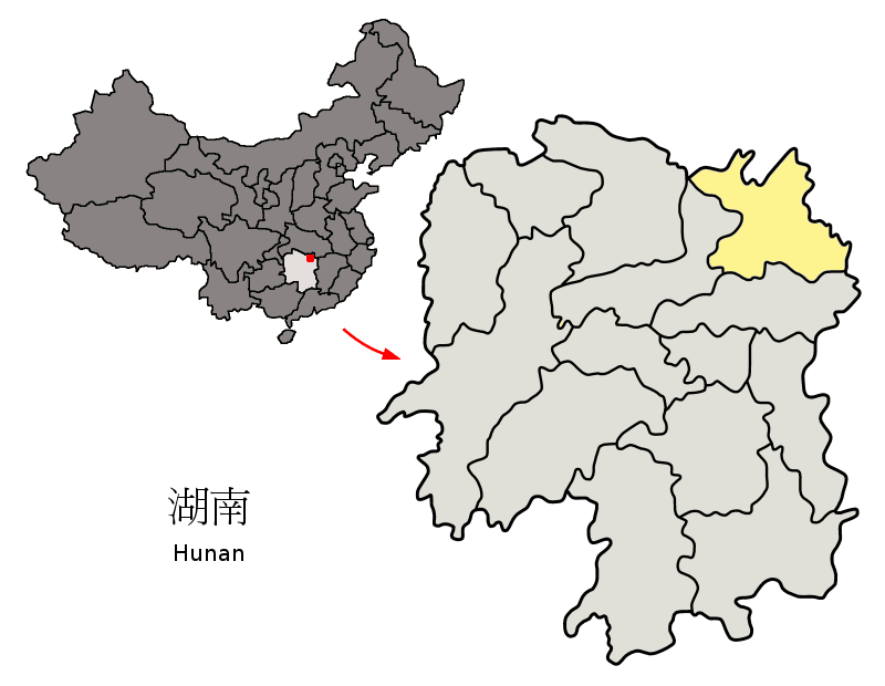 Location of Yueyang Prefecture (yellow) within Hunan Province of China Map drawn in december 2007 using various sources, mainly : Hunan Province administrative regions GIS data: 1:1M, County level, 1990 Hunan Counties map from